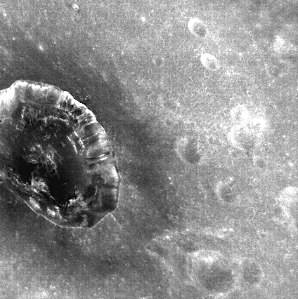 Date acquired: February 16, 2014 Image Mission Elapsed Time (MET): 34838972 Image ID: 5770878 Instrument: Narrow Angle Camera (NAC) of the Mercury Dual Imaging System (MDIS) Center Latitude: -14.11° Center Longitude: 26.85° E Resolution: 41 meters/pixel Scale: Berkel crater is 22 kilometers (14 miles) in diameter Incidence Angle: 33.2° Emission Angle: 48.4° Phase Angle: 30.1° Orientation: North is toward the bottom of this image. Of Interest: MESSENGER's first orbital image, the first ever obtained from a spacecraft in orbit about Mercury, showed a large region of the planet, including the crater Berkel. Monday will mark three years since the MESSENGER spacecraft entered into orbit about Mercury. Over 200,000 images have been captured since that first orbital view, including the striking image of Berkel shown here, which shows new details of Berkel's dark, low-reflectance material, excavated during the impact that formed the crater. This image was acquired as part of the NAC ride-along imaging campaign. When data volume is available and MDIS is not acquiring images for its other campaigns, high-resolution NAC images are obtained of the surface. These images are designed not to interfere with other instrument observations but take full advantage of periods during the mission when extra data volume is available. The MESSENGER spacecraft is the first ever to orbit the planet Mercury, and the spacecraft's seven scientific instruments and radio science investigation are unraveling the history and evolution of the Solar System's innermost planet. During the first two years of orbital operations, MESSENGER acquired over 150,000 images and extensive other data sets. MESSENGER is capable of continuing orbital operations until early 2015.